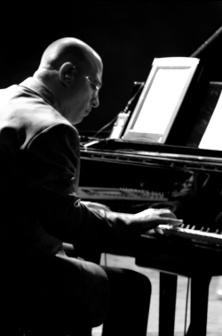 Mike Garson in Paris (original: Image taken by Alex Boyd in Paris 2006, I licence this picture to the public domain. It can also be found at